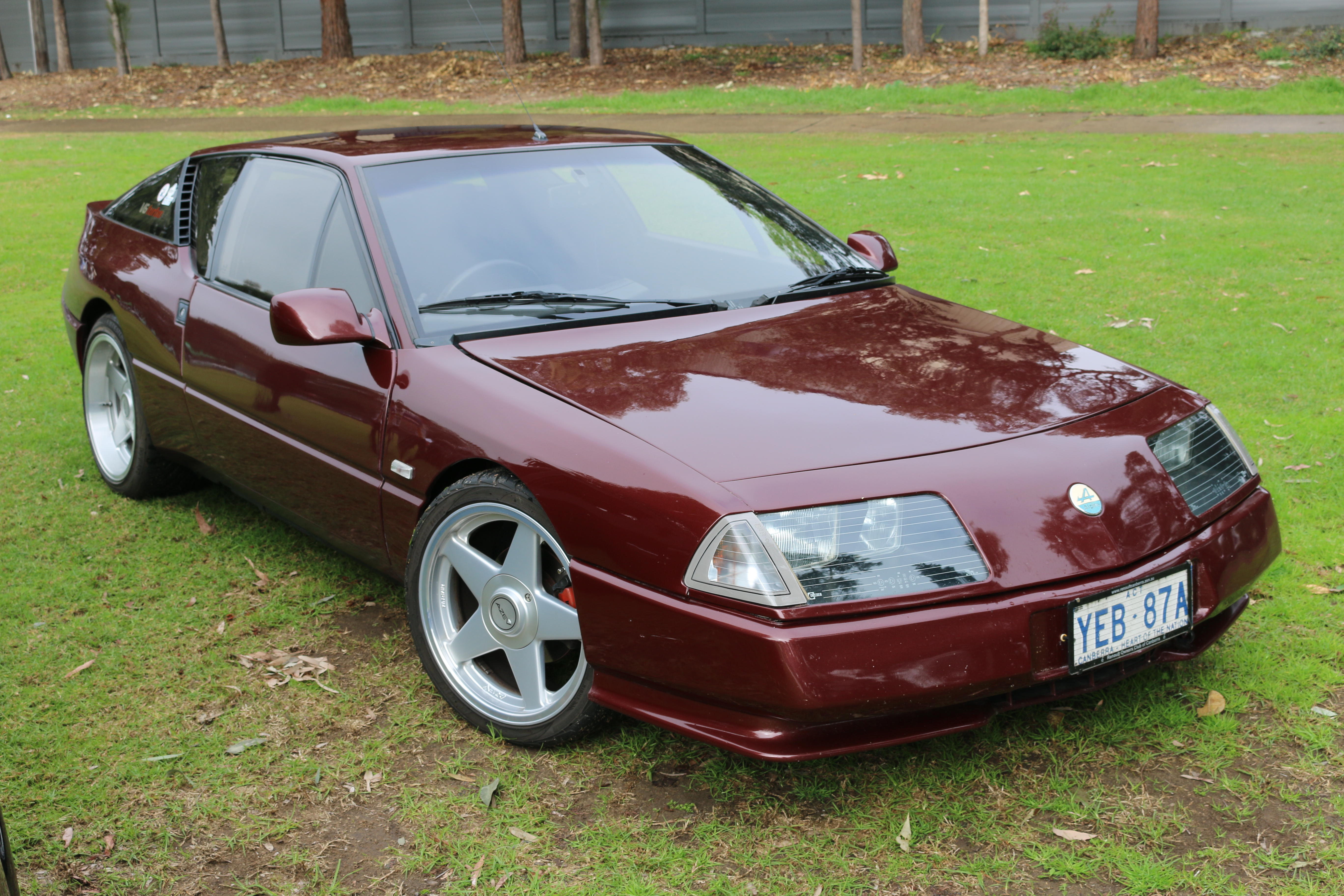 All French Day, Silverwater Park, NSW July 2016